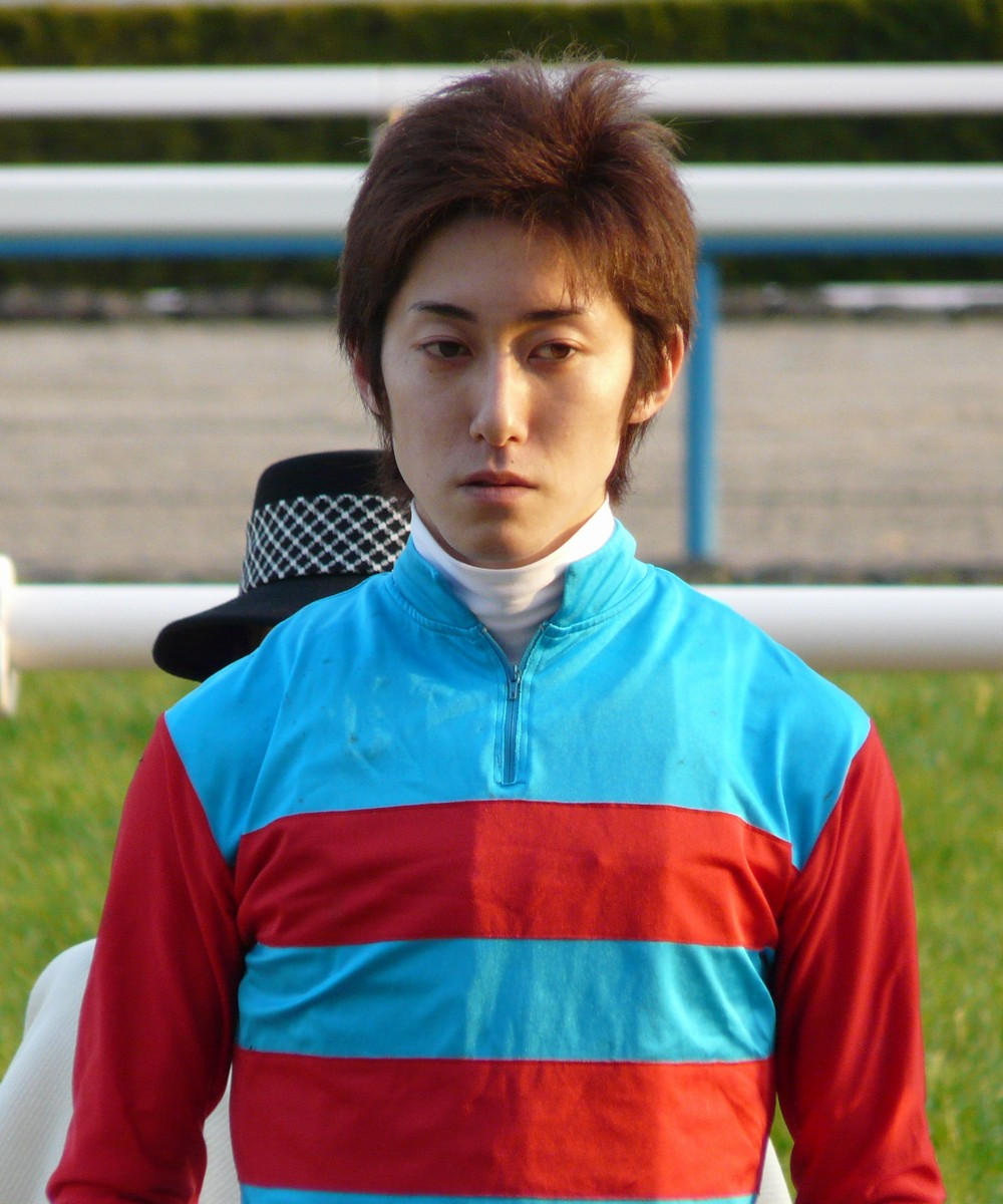 Akihide-Tsumura